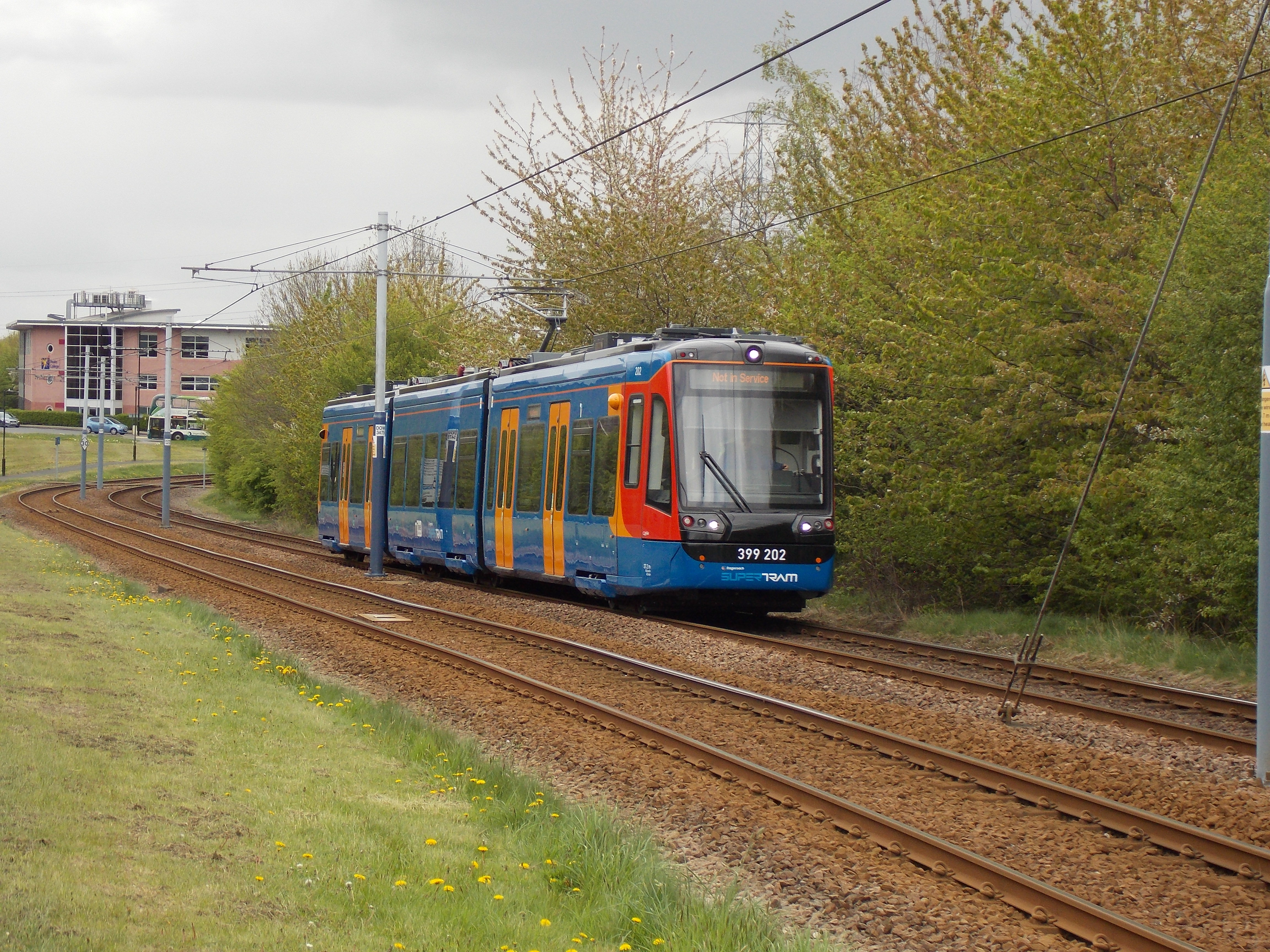 Sheffield Supertram new Vossloh Citylink tram-train 399202 during its first day of tram network testing on 21 April 2017, passing close to Donetsk Way tram stop with the buildings of the Sheffield College Peak Campus in the background.